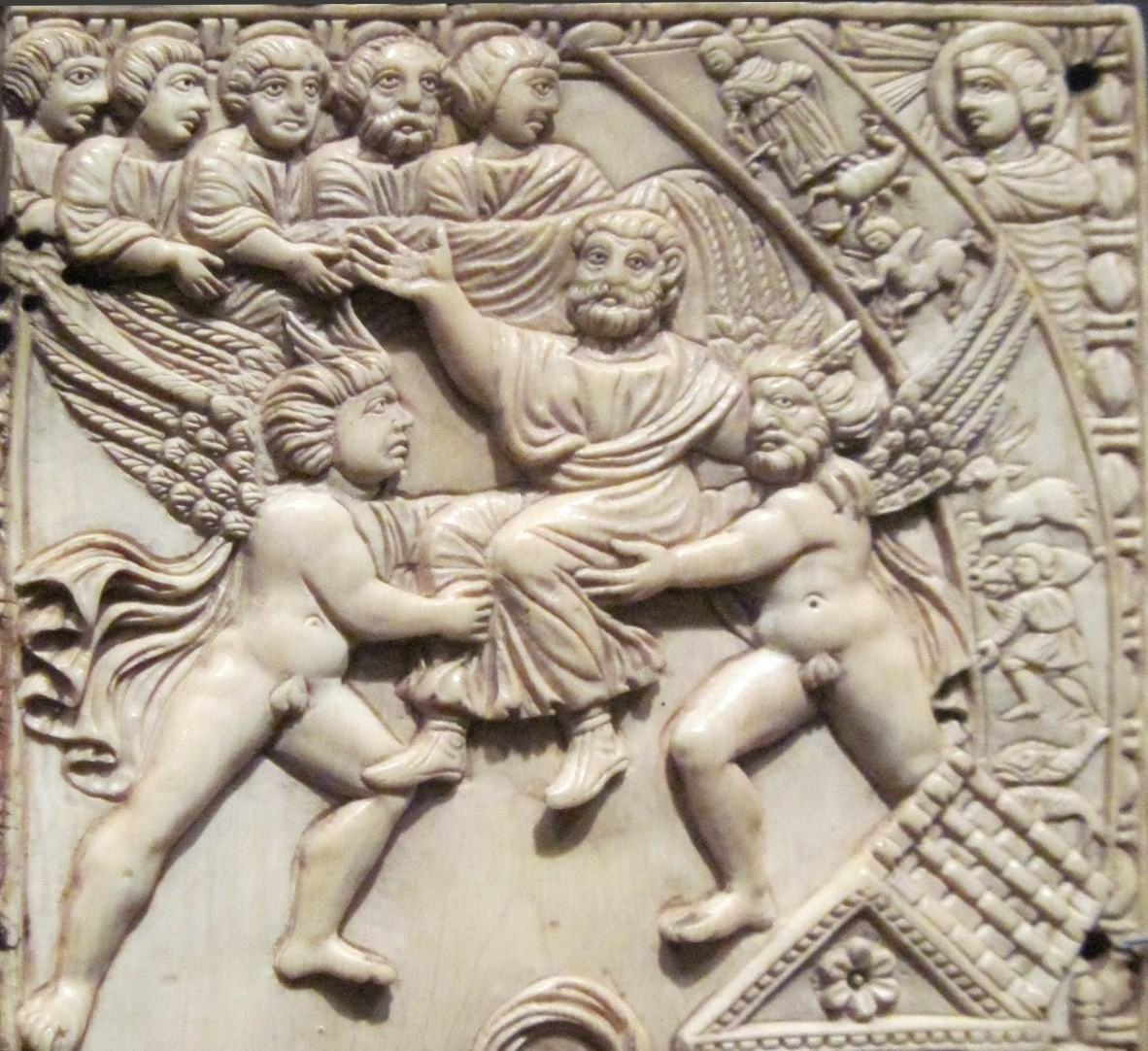 Detail of a panel of an ivory diptych, dated to the year 402, that bears the Symmachus family monogram and depicts the apotheosis of a mortal (probably Q. Aurelius Symmachus himself). Here, the man is led into heaven by two genii; five persons, perhaps his ancestors, await him there. The Sun god observes the scene from near a portion of the zodiac (six signs can be seen). Property of the British Museum, temporarily on display at the Art Institute of Chicago. Interlingua: Detalio de un pannello de un diptycho in ebore, datate del anno 402, que porta le cifra del familia de Symmacho e depinge le apotheose de un mortal (probabilemente Q. Aurelio Symmacho ipse). Ci, le homine es conducte in le celos per duo genios; cinque personas, pot'esser su ancestres, le attende la. Le deo Sol observa le sceno de presso un portion del zodiaco (sex signos pote vider se). Proprietate del British Museum, temporarimente exposite in le Art Institute of Chicago.